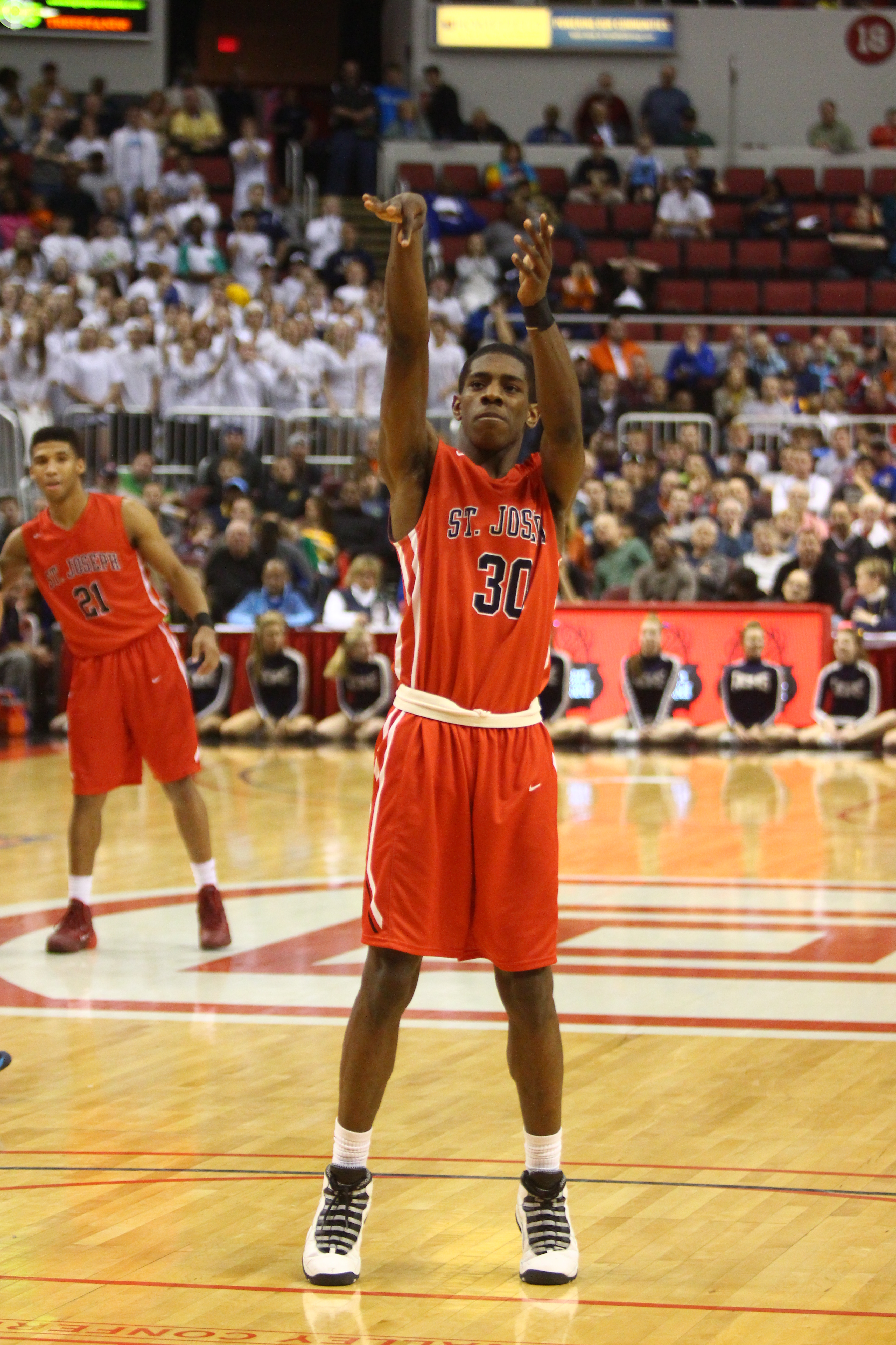 Glynn Watson in the 2015-03-21 Althoff v. St. Joseph Class 3A championship basketball game